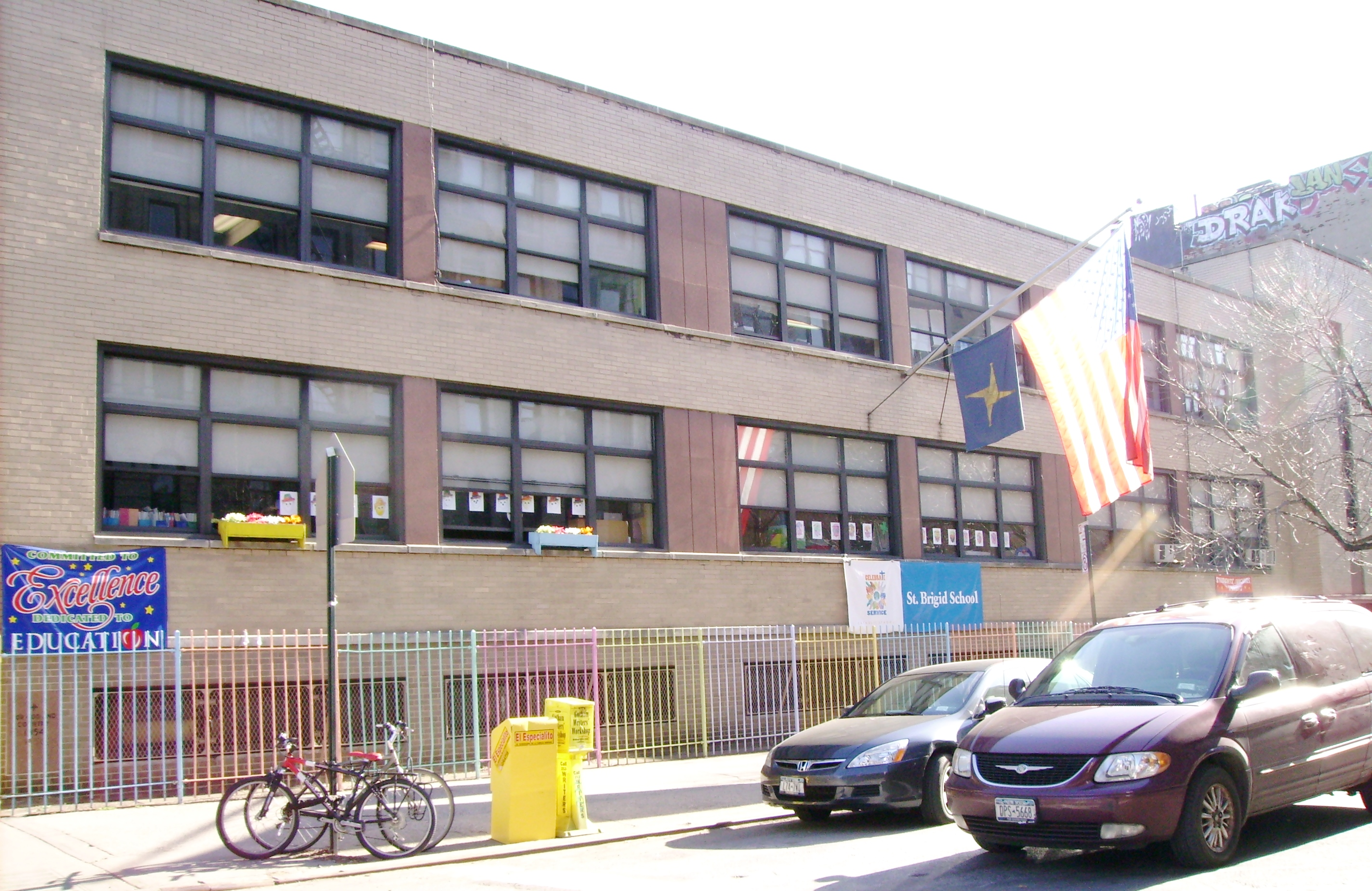 St. Brigid's Catholic School in the East Village of Manhattan